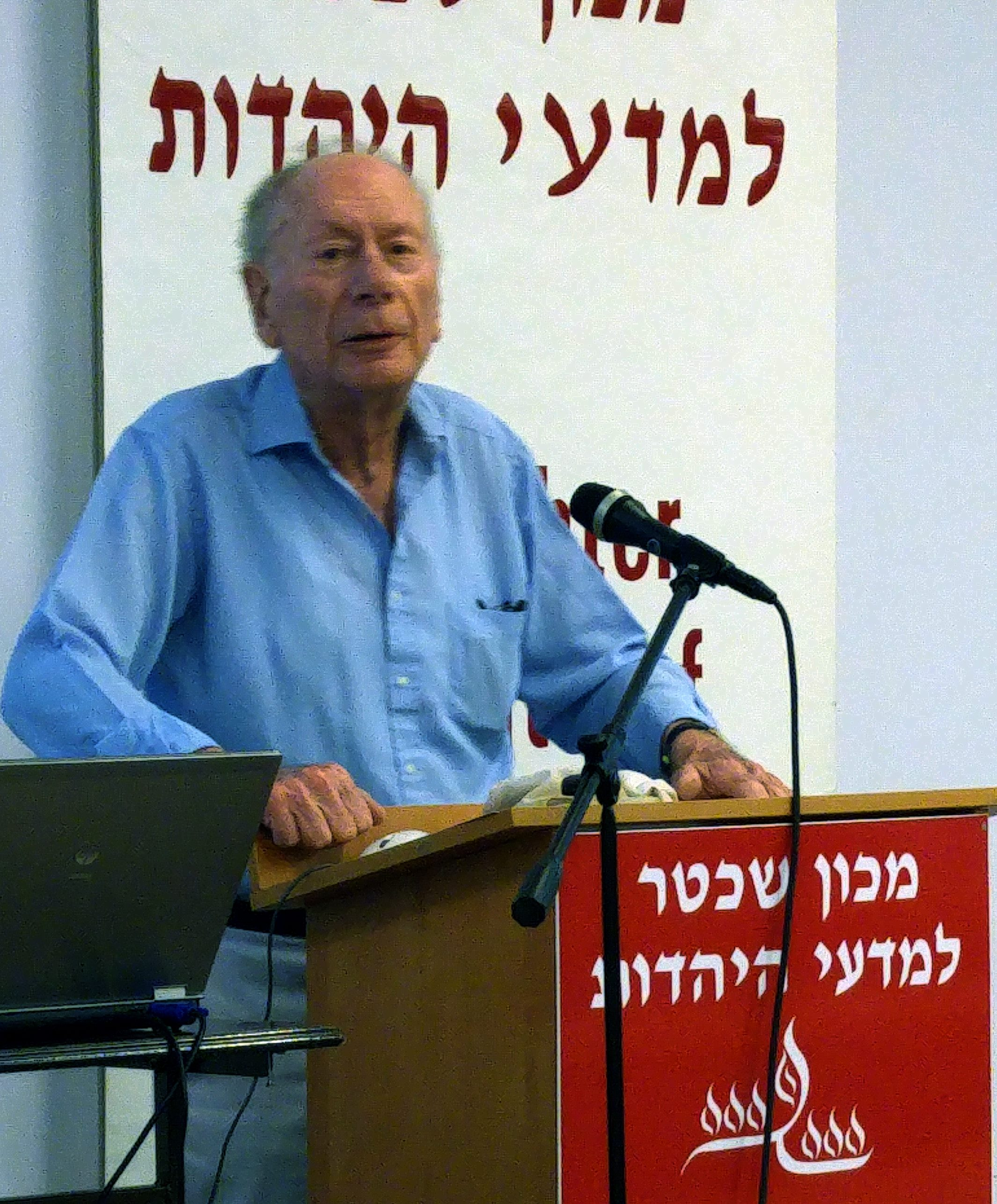 Elisha Efrat, October 2015 in Schechter institute, Jerusalem